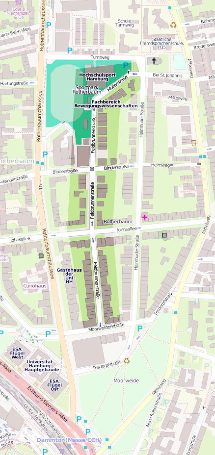 This map may be incomplete, and may contain errors. Don't rely solely on it for navigation.